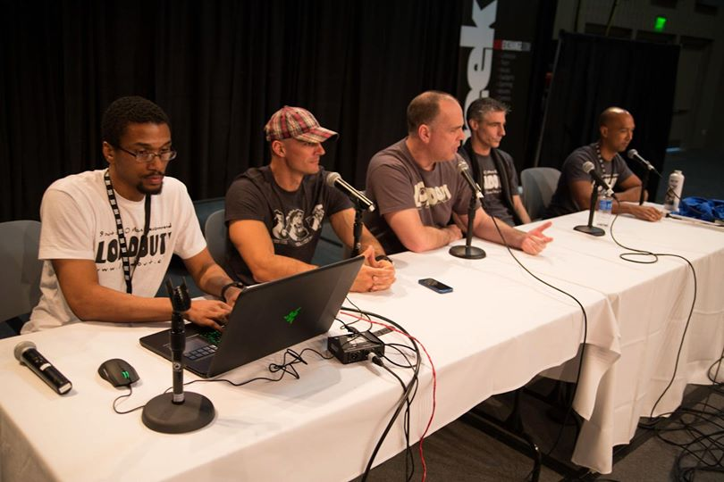 The Loadout Dev team at the Geek Panel discussing the development process of Loadout.